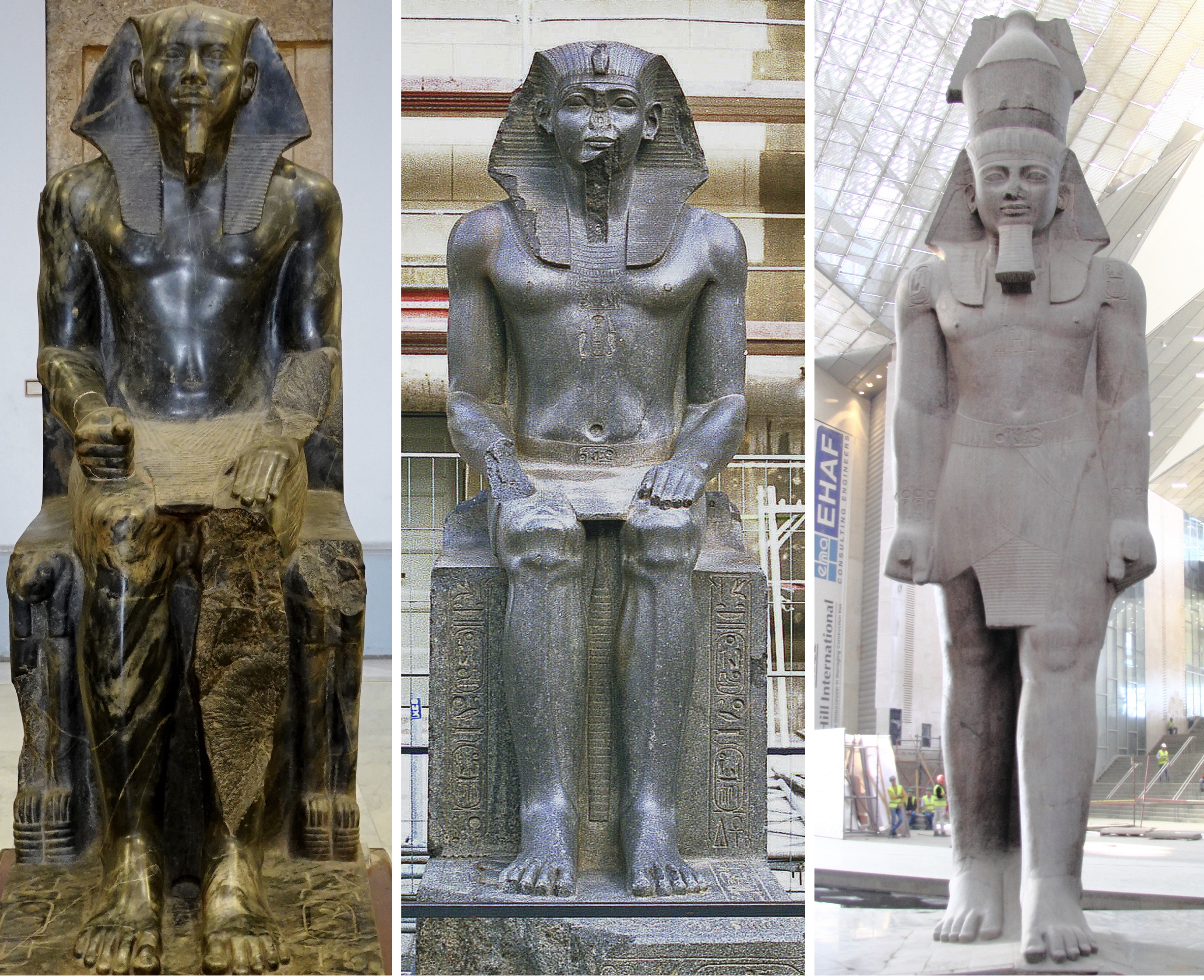 Old Kingdom, Middle Kingdom, New Kingdom. Three colossal statues side by side.